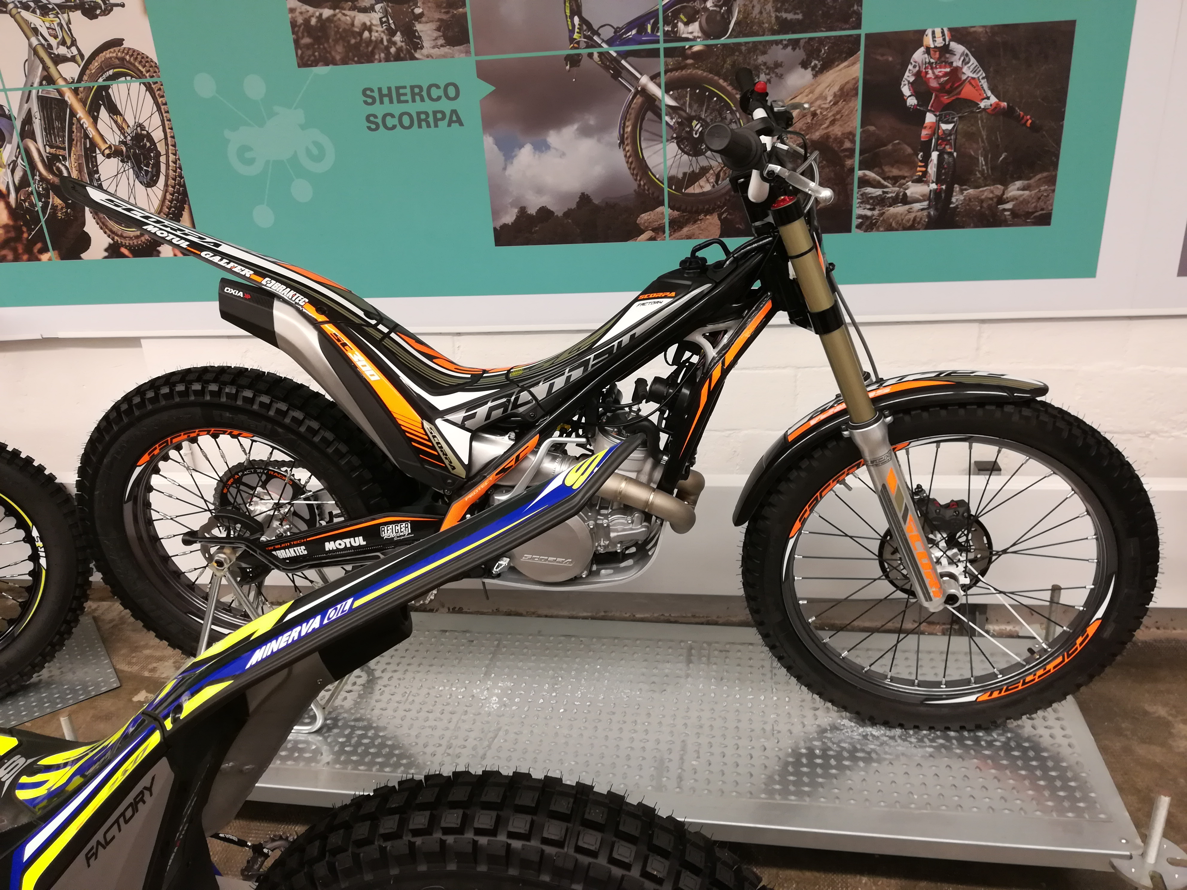 Scorpa SC Factory 300cc, 2017